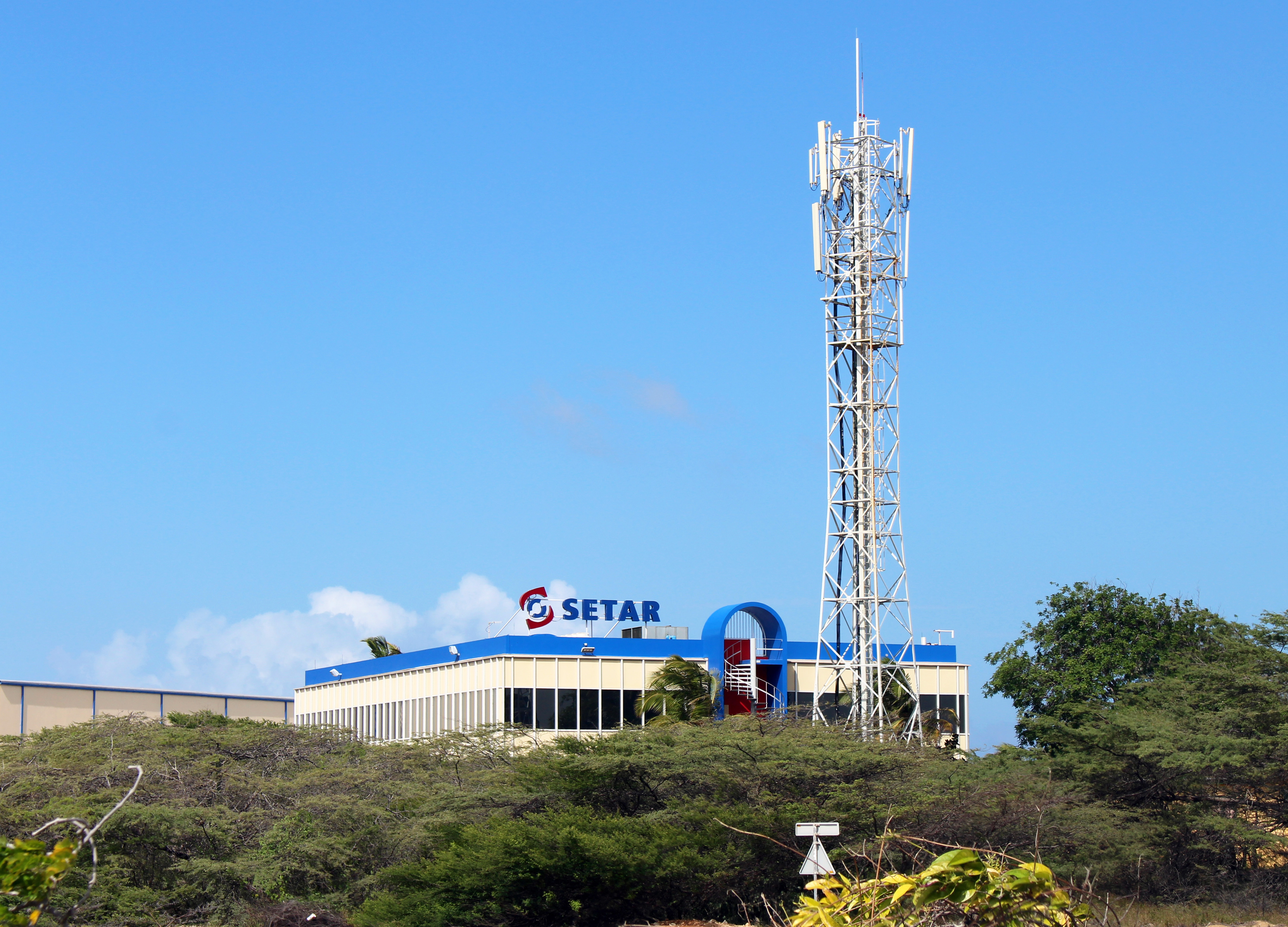 An antenna at the headquarters of Setar NV in Oranjestad, Aruba. Photographed by user Coolcaesar on November 30, 2014.